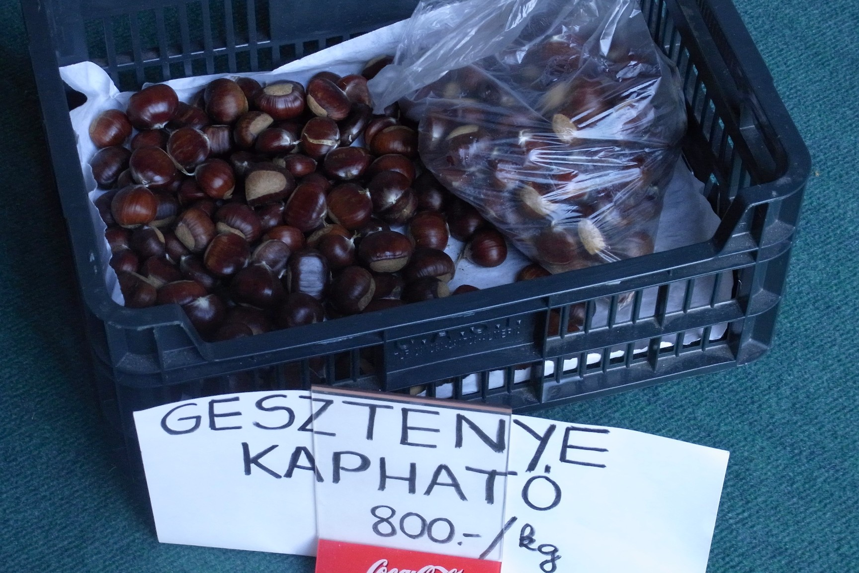 Castanea nuts for sale